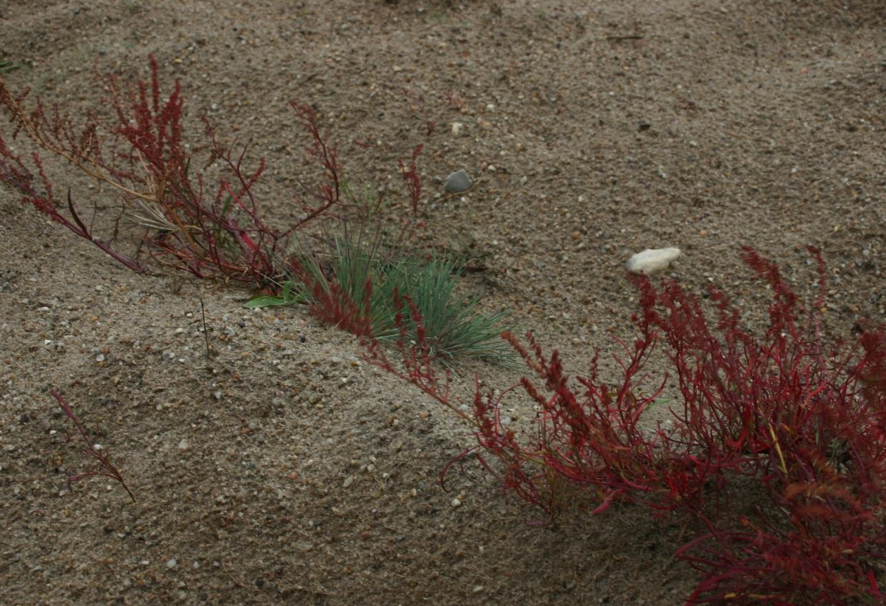 Pioneering plants on an inland-dune in Jutland: Nardus stricta and Rumex acetosella